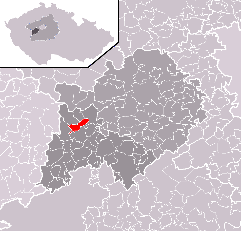 Location of Točník municipality within Beroun District and administrative area of Hořovice as a Municipality with Extended Competence.